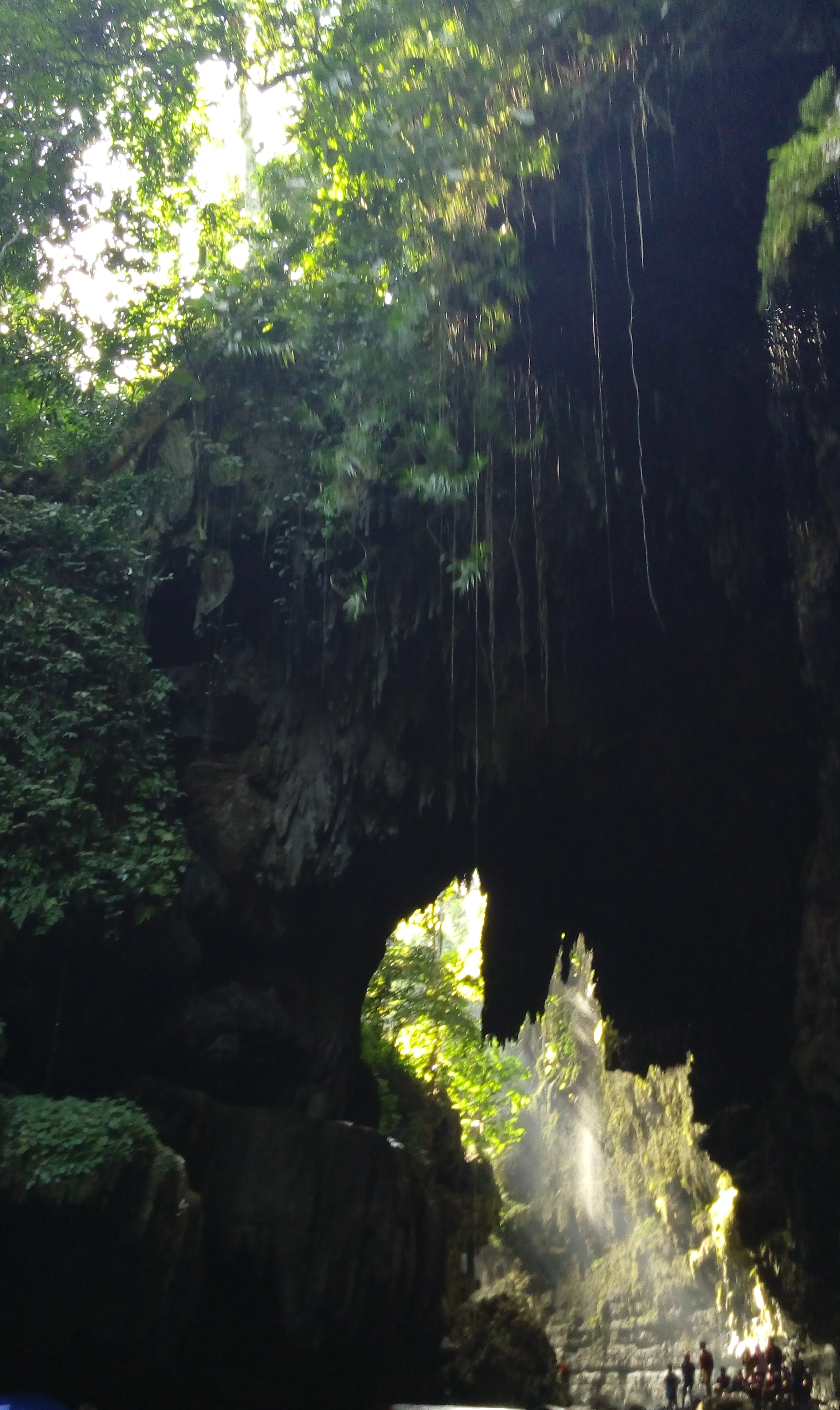 Cukang Taneuh (Green Canyon) is located in Cijulang, Ciamis Regency, Indonesia.